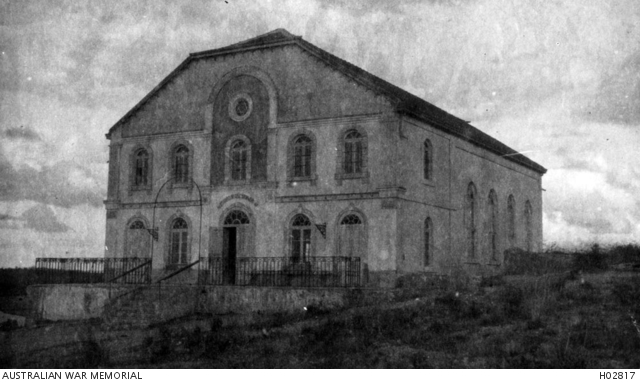 original description: "Palestine. c. 1918. A Jewish Synagogue at Ras Deiran near Jaffa."